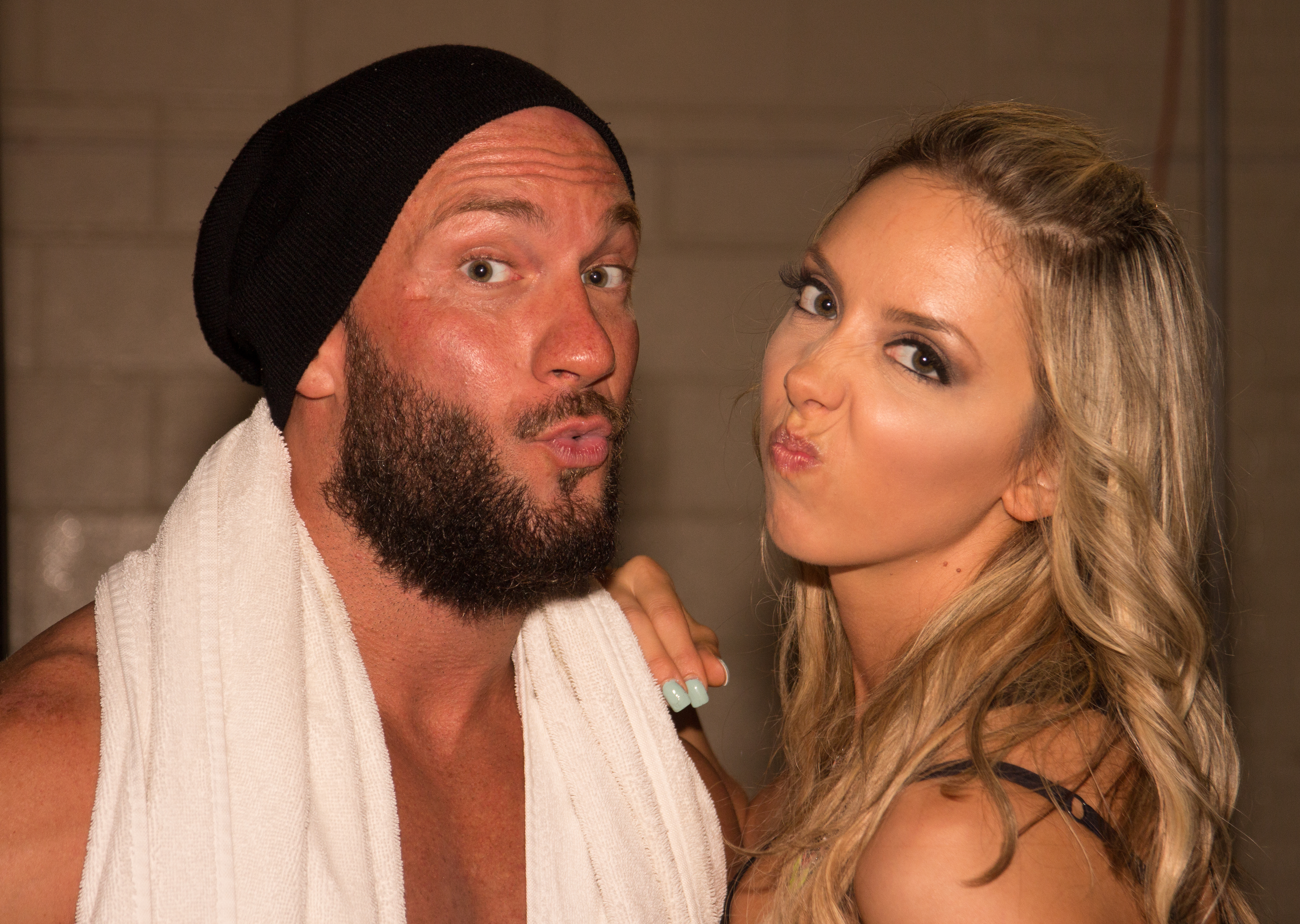 Husband & wife wrestlers Pepper Parks (left) & Cherry Bomb posing during intermission at a Smash Wrestling show in Etobicoke, ON